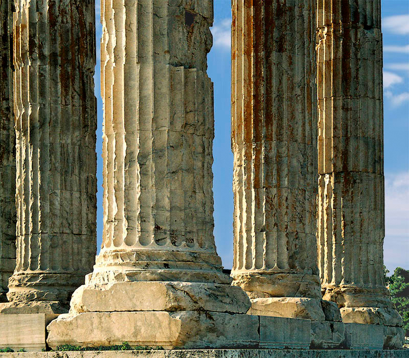 Temple of Olympian Zeus, Athens. The great past was in the minds of the highly educated - in all times: “Et in Arcadia ego”. The populations as a whole dont care…